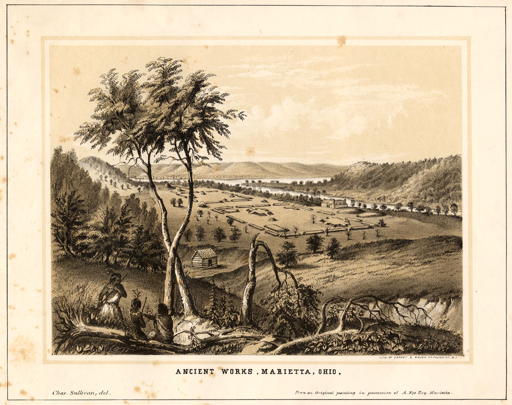 Ancient works, Marietta, Ohio. Library of Congress: American Memory, First American West: The Ohio River Valley, 1750-1820. Ancient monuments of the Mississippi Valley, Image 1 of 21. Originally published in William Cullen Bryant and Sydney Howard Gay, A Popular History of the United States, Vol I (1888), p. 24.